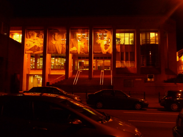 Glasgow: Royal Scottish Academy of Music and Drama Pictured after dark, picking out the floodlit pictures.